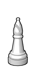 A Chess piece.